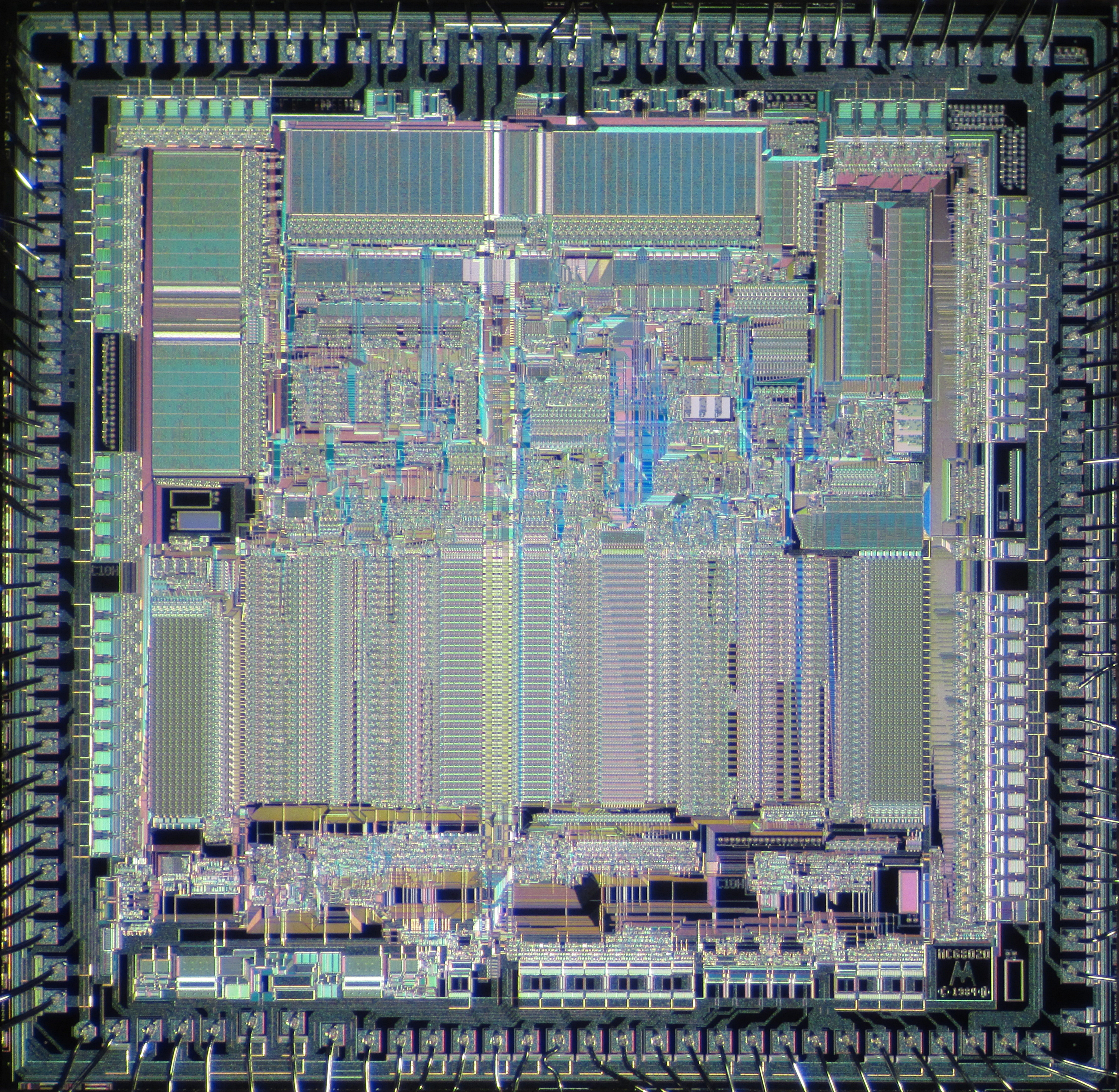 Die shot of Motorola 68020 microprocessor (MC68020FE16E).